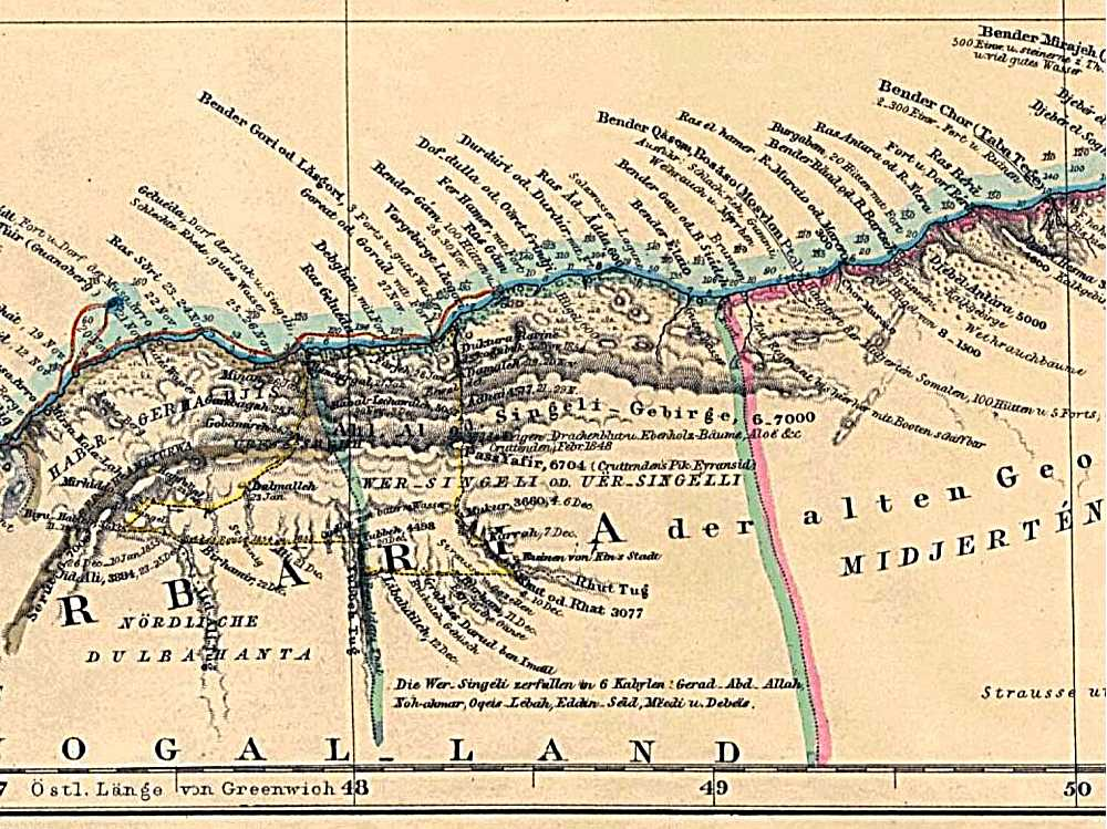 Historical German map of the Somali coast with indication of Somali clans including the Warsangali circa 1857.